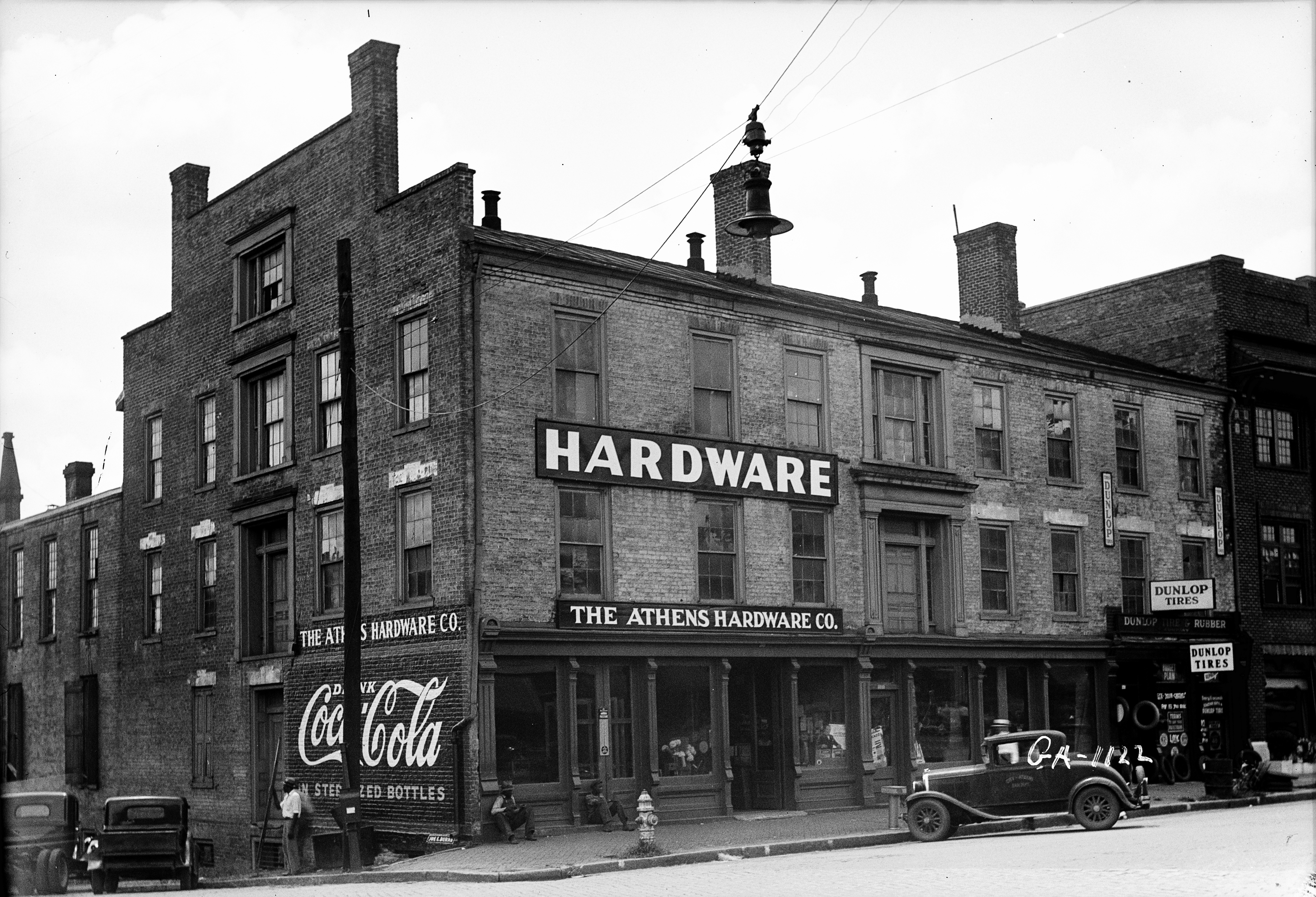 Historic American Buildings Survey L. D. Andrew, Photographer Aug. 13, 1936 NORTH FRONT AND EAST SIDE HABS GA,30-ATH,12-1